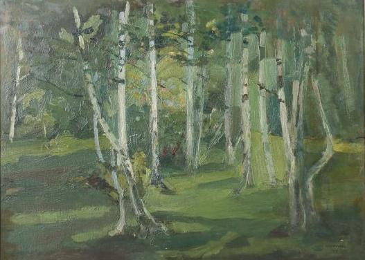 Painting by Lascar Vorel. 48,5 x 67,5 cm 1909 Oil on wood